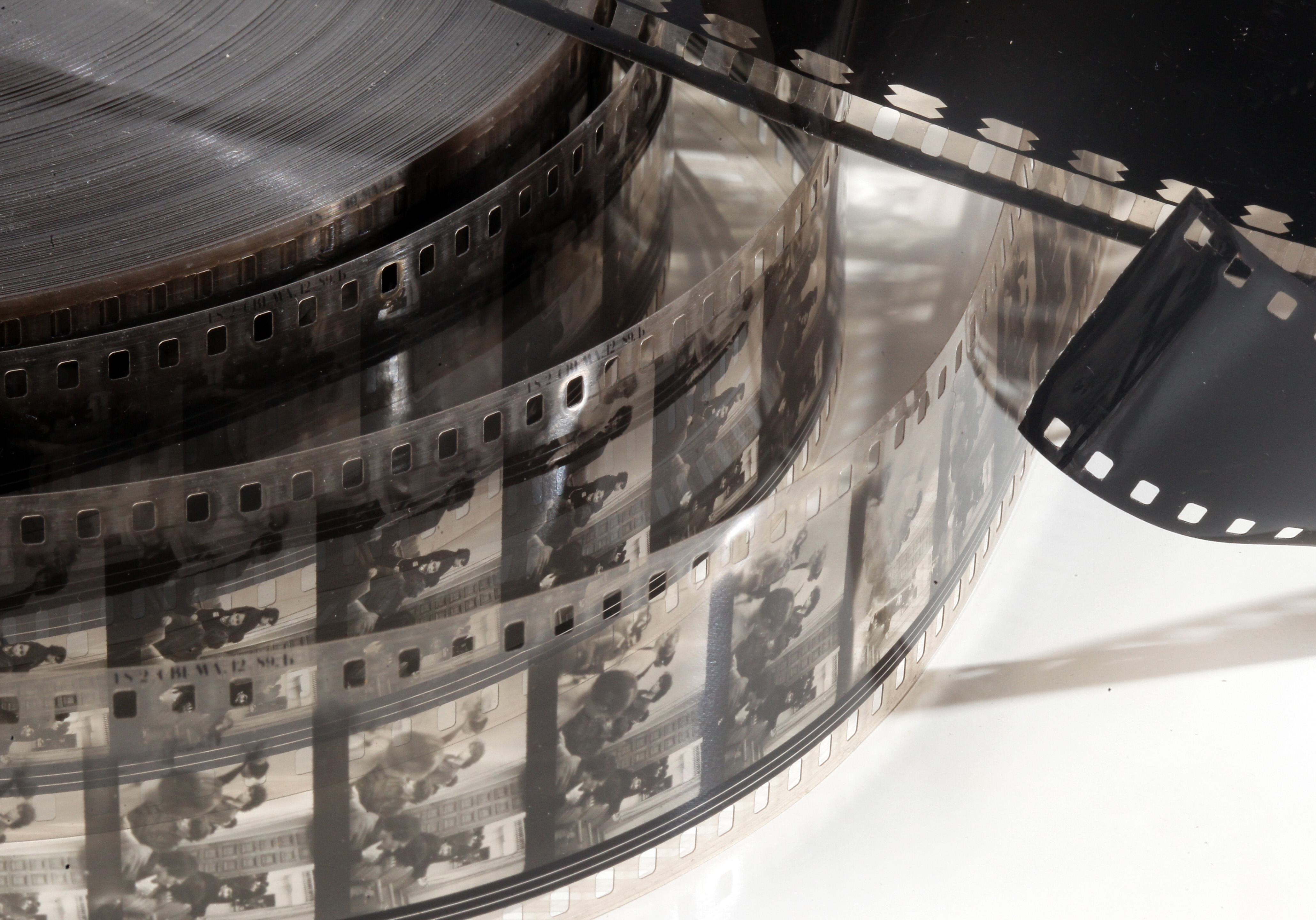 Movie print with soundtrack on 35-mm b&w positive film 'Svema'.